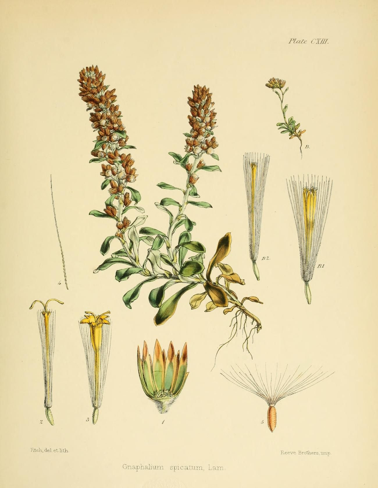 jpg of Plate CXIII of Hooker's Flora Antarctica. Gnaphalium spicatum Lam.